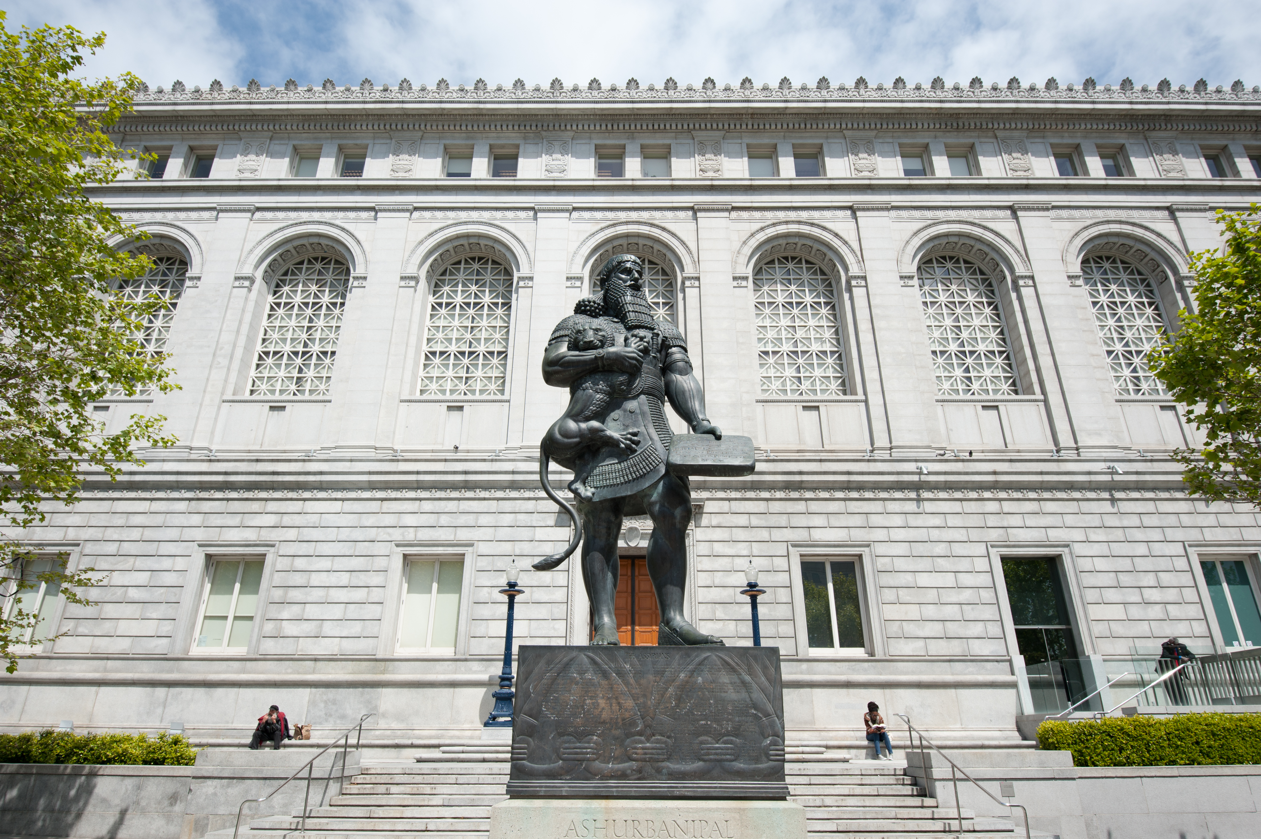 Ashurbanipal, (sculpture). San Francisco Civic Center Historic District